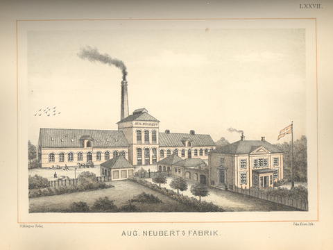 Aug. Neuberts Frabrik in Vobrggade (progonally Batterivej) in Østerbro, Copenhagen, Denmark